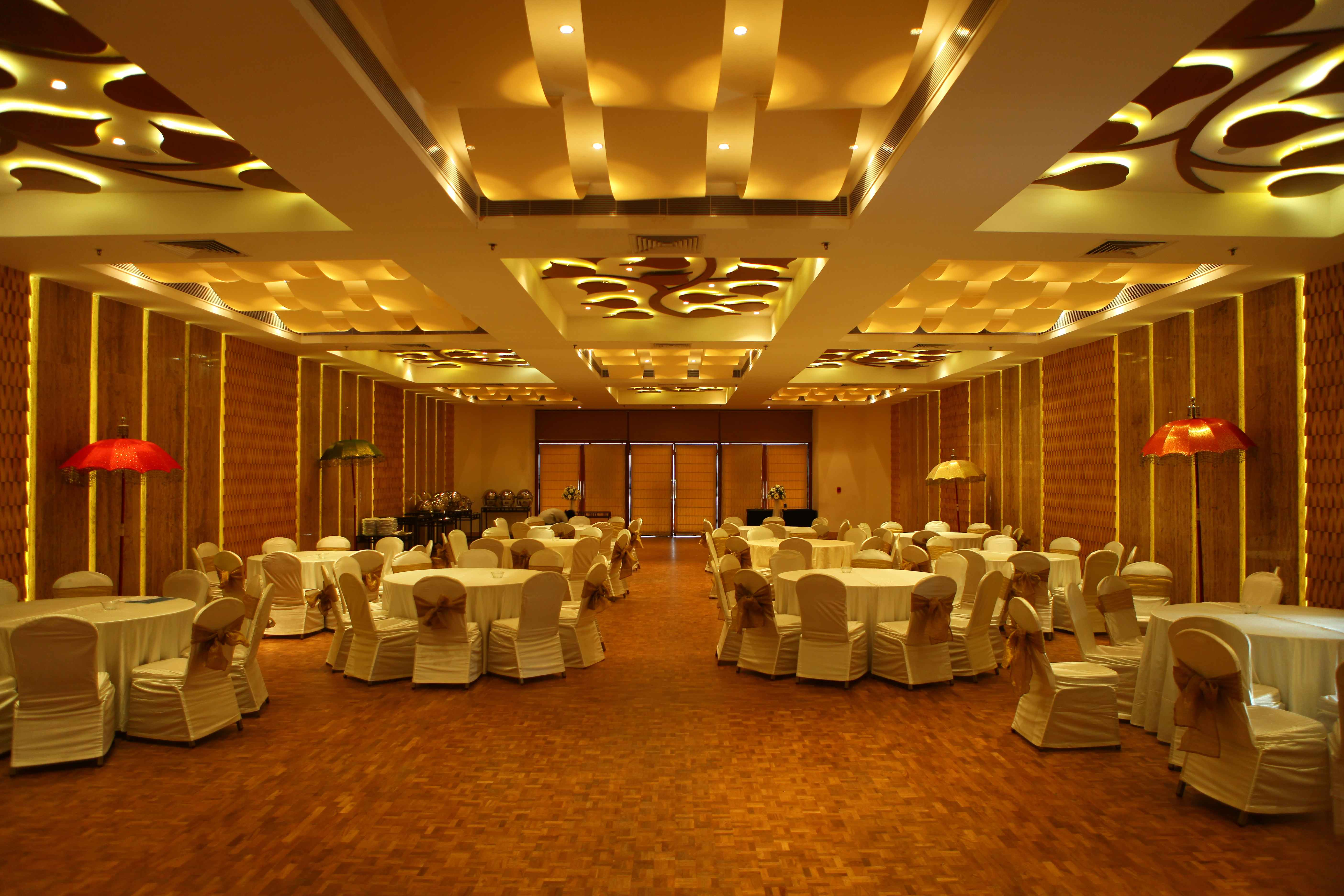 Auditorium in a Resort, Cochin, Kerala